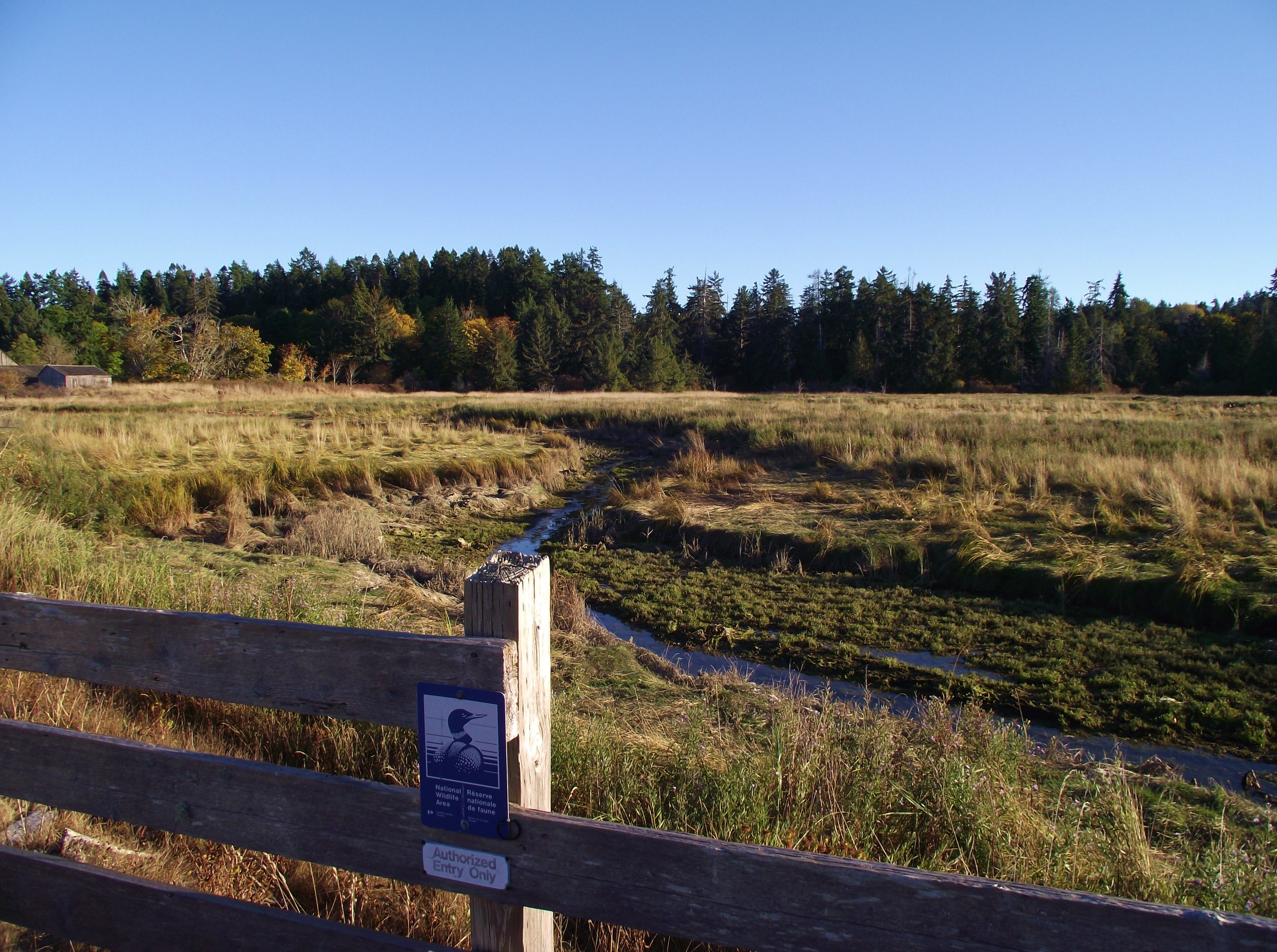 Marshall-Stevenson Wildlife Sanctuary, east, viewed at high tide in early fall, with historic Kinkade Farmstead in background.